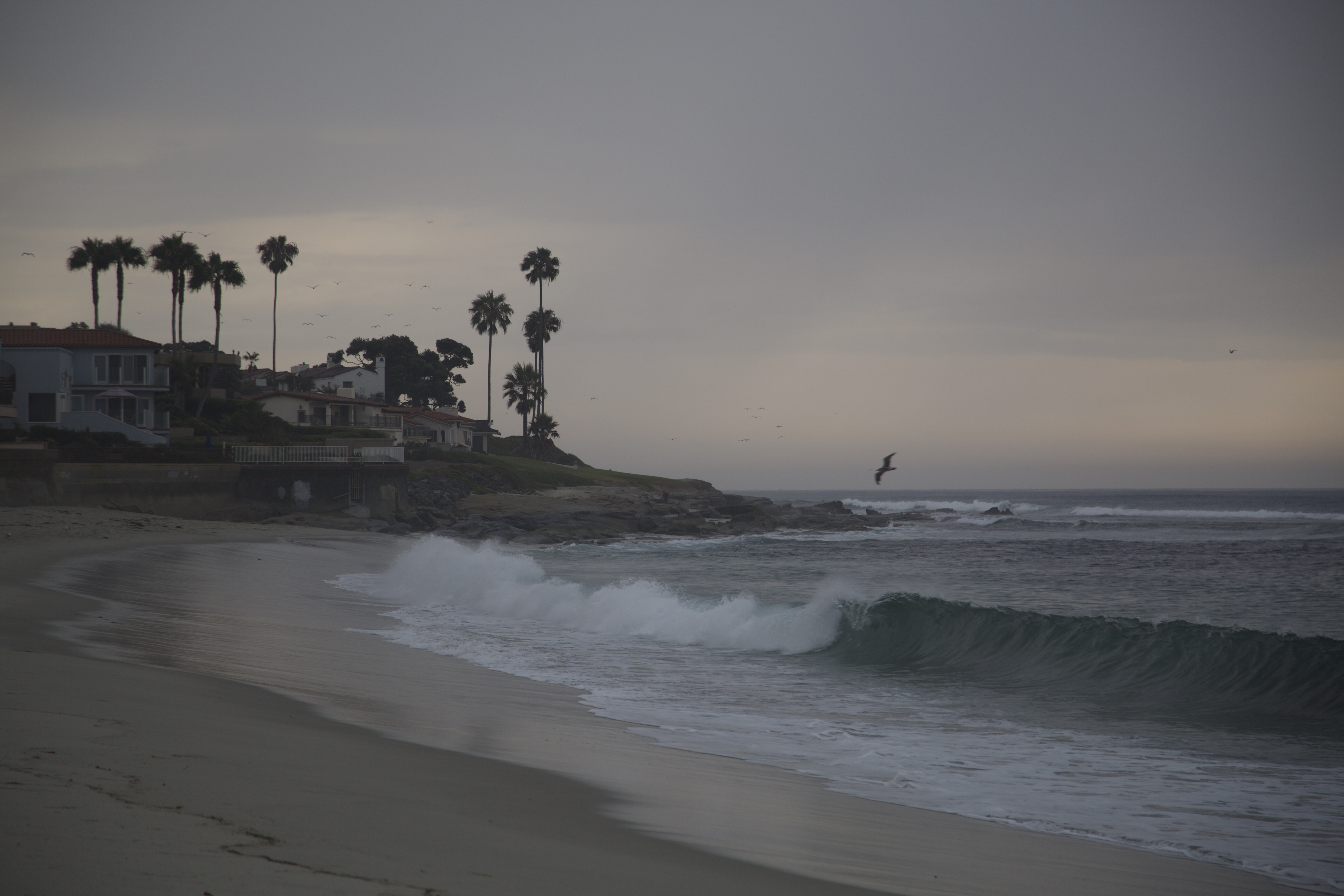 Photo taken by Photographer Richard Wilson